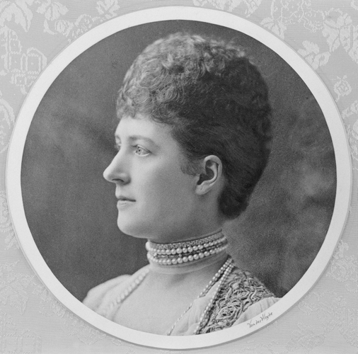 Alexandra of Denmark in choker